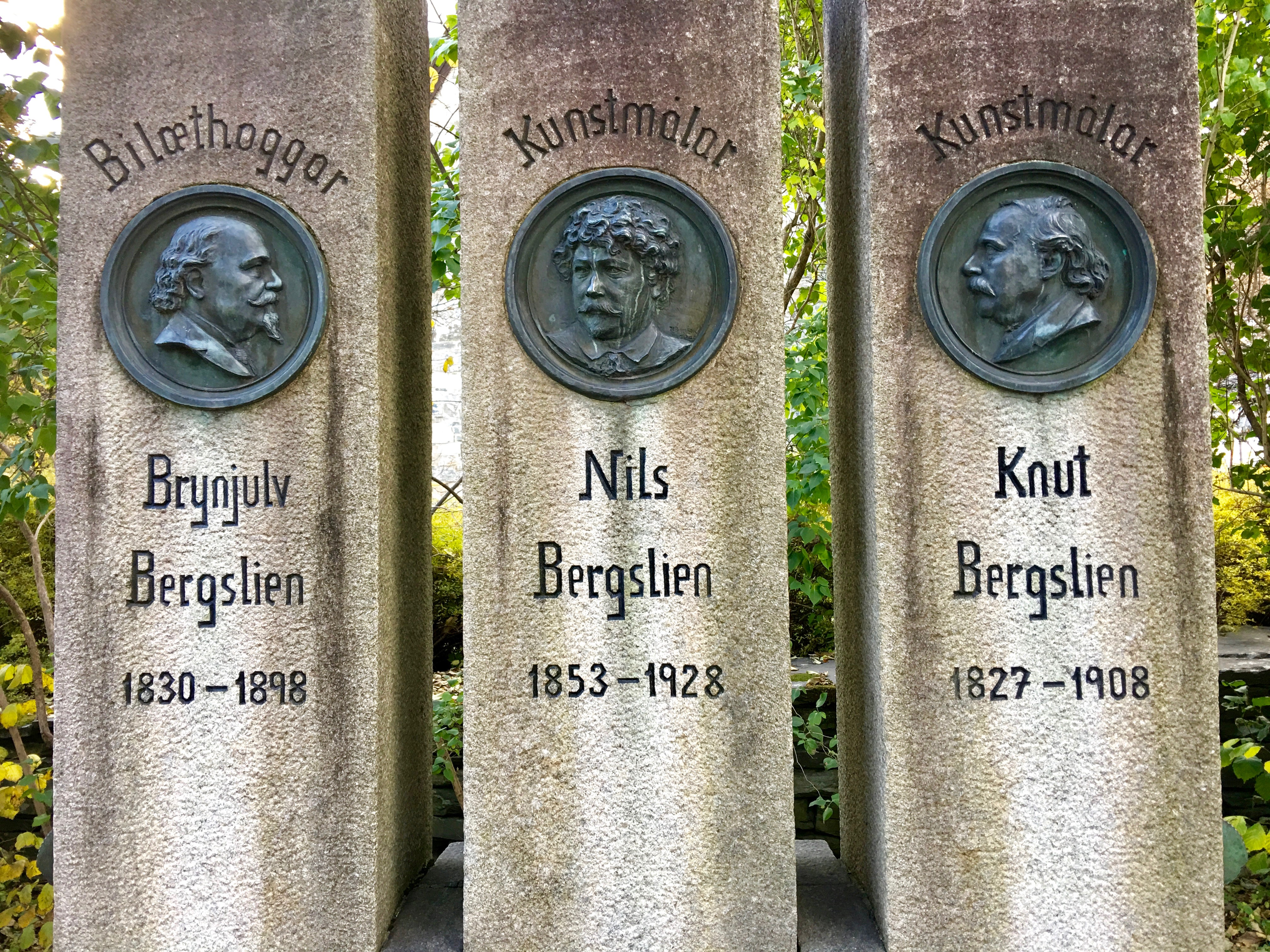 Monument in memory of Norwegian artists Brynjulv (Brynjulf) Bergslien (1830 – 1898, sculptor), Nils Bergslien (1853 – 1928, illustrator, painter, and sculptor), and Knut (Knud) Bergslien (1827 – 1907, painter), located at Bergsliplassen, a small park behind Voss Church (Voss kyrkje /Vangskyrkja) in Voss, Norway. Brynjulf and Knud Bergslien were brothers, Nils Bergslien their nephew. The Bergslien Monument ("Bergslimonumentet") was unveiled on October 21st, 1928 by Jon Mannsåker, member of the Norwegian Parliament. The bronze reliefs were sculpted by Nils Bergslien. The three rectangular coloumns / stones are approx. 2,5 meters tall, the base 0,7 meter. Photo taken on October 25th, 2016.